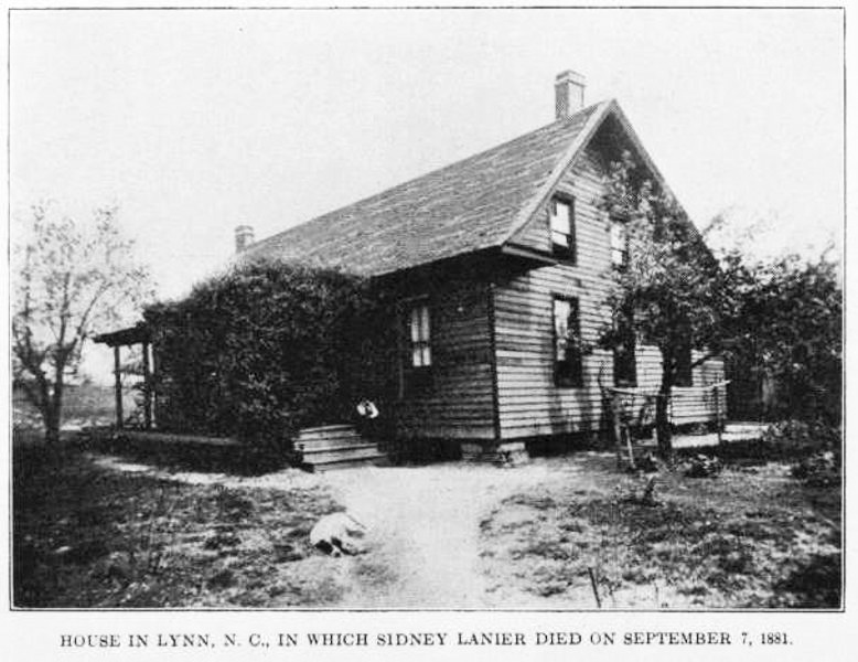 Death house of Sidney Lanier